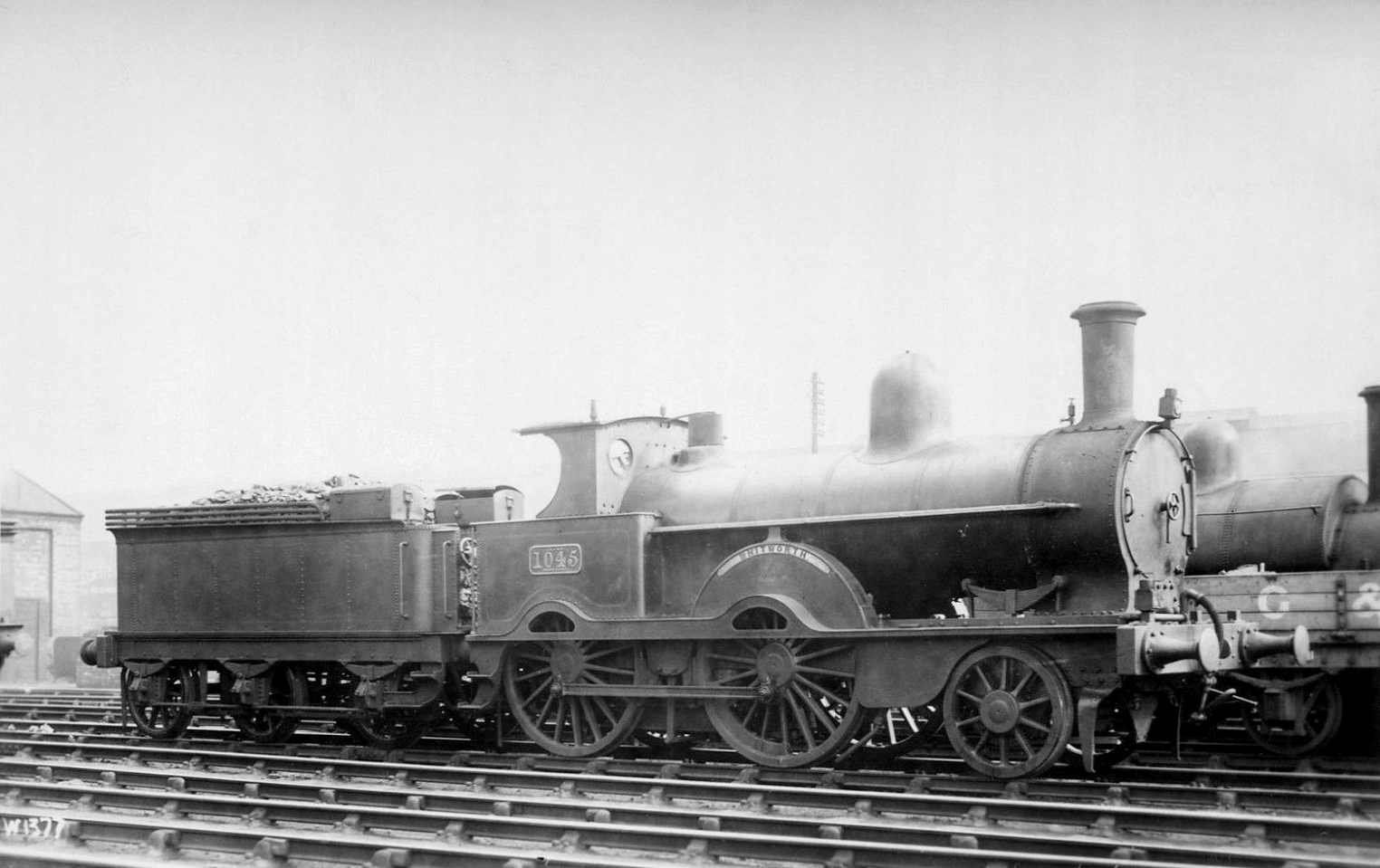 Photograph of LNWR engine No. 1045 'Whitworth'